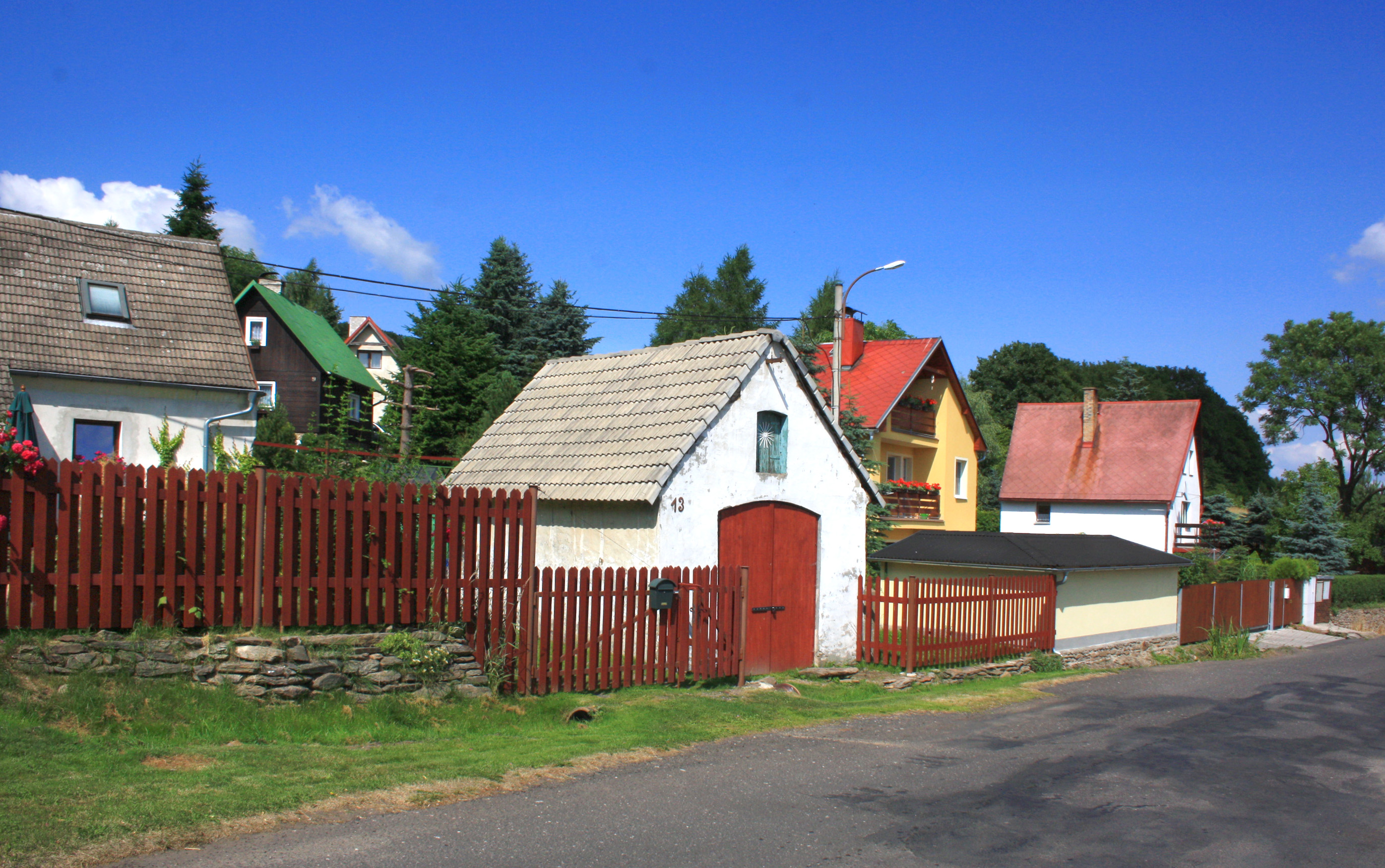 Šerchov, part of Blatno, Czech Republic